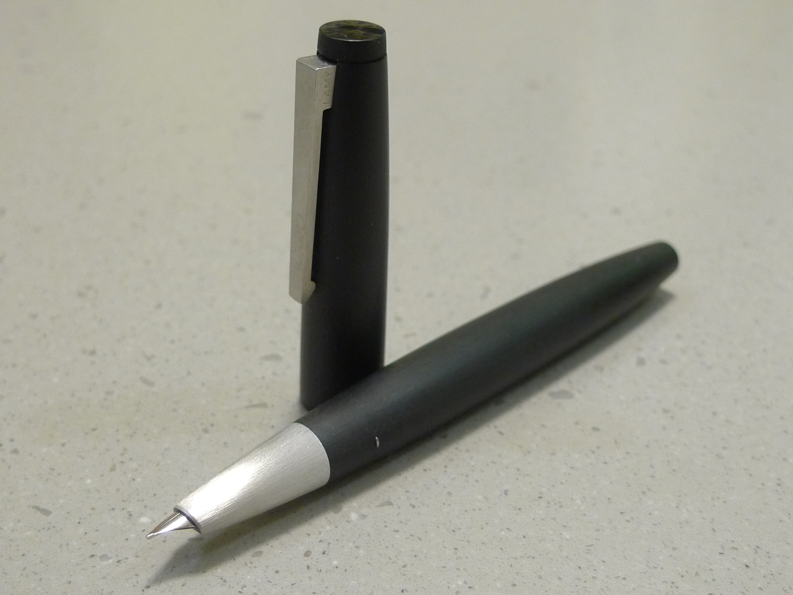 Lamy 2000 fountain pen, EF (Extra Fine) semi hooded nib. Designed by Gerd Alfred Müller and released in 1966, it remains in production today. The 2000 was innovative in its day for its use of (black) Polycarbonate resin, branded as Makrolon by Bayer, for the cap and body of the pen. It is the only Lamy fountain pen that is a piston fill pen, so thus only takes bottled ink.